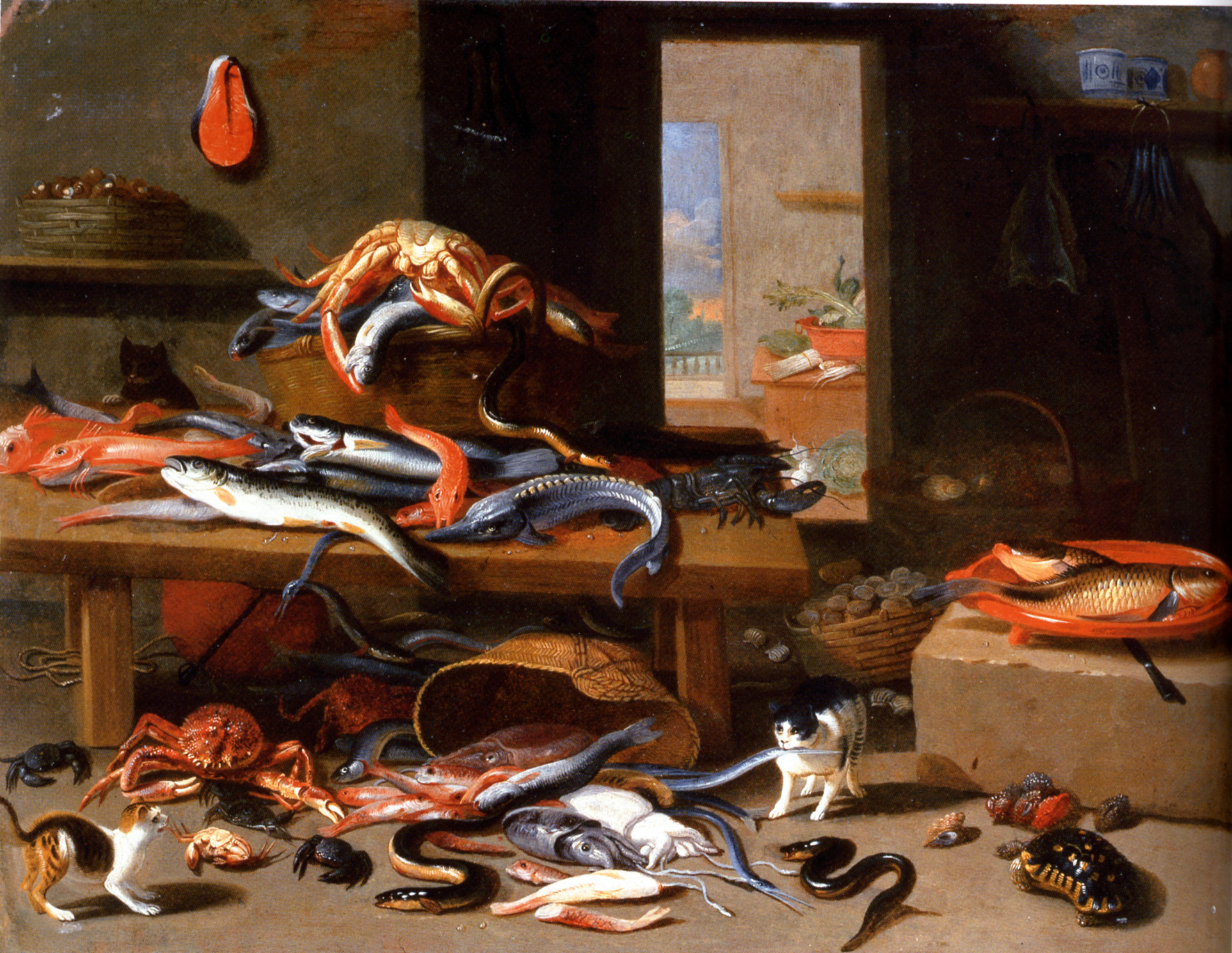 A lobster, a sturgeon, an eel and other fish on a table with a wicker basket, cats and a tortoise in the foreground with other fish and sea animals, a landscape through a doorway beyond.